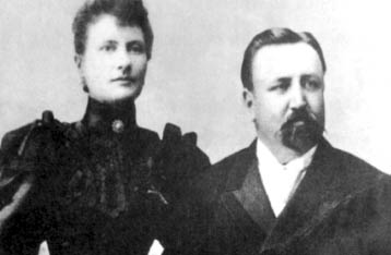 Photo of Michael Ham and his wife Ana María Lynch